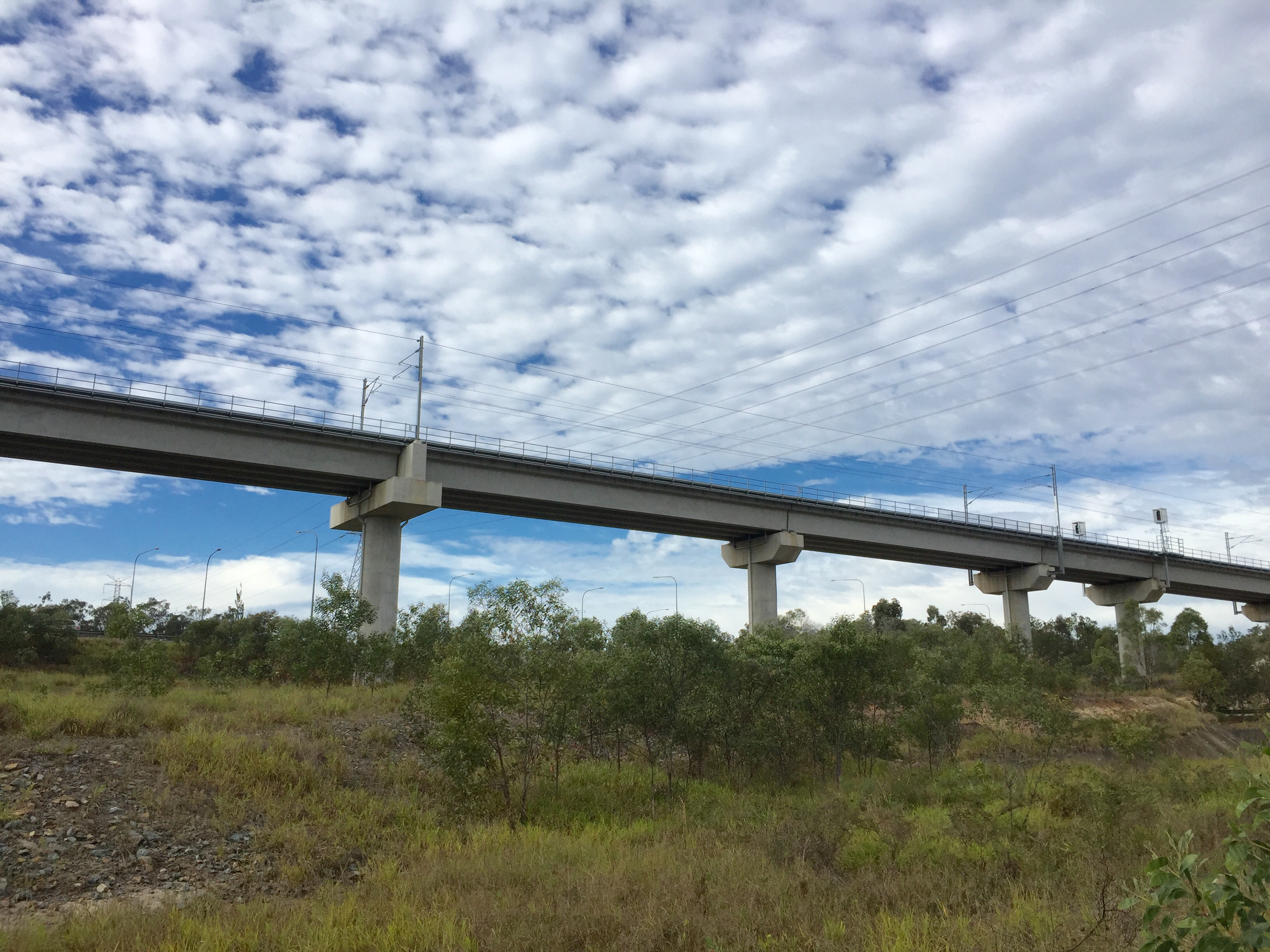 Springfield railway line viaduct over bushland at Forest Lake, Queensland